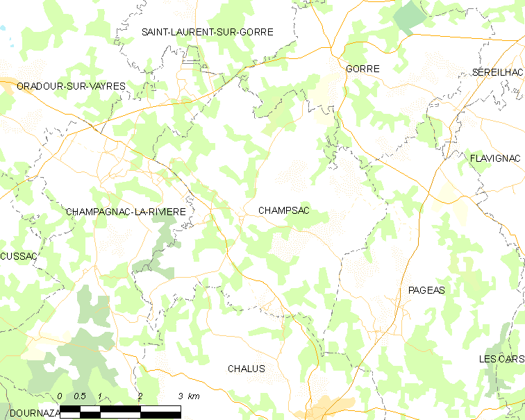 Map of French municipality Champsac